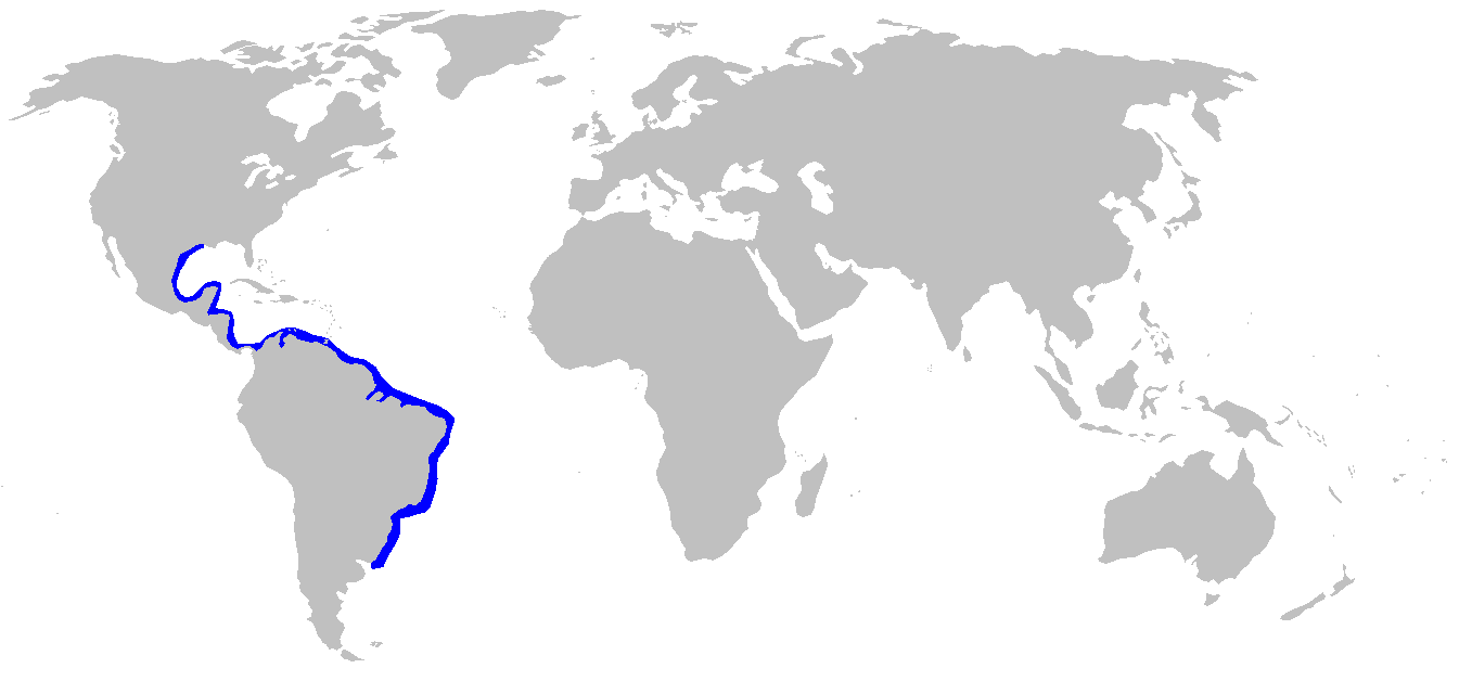 Distribution map for Mustelus higmani